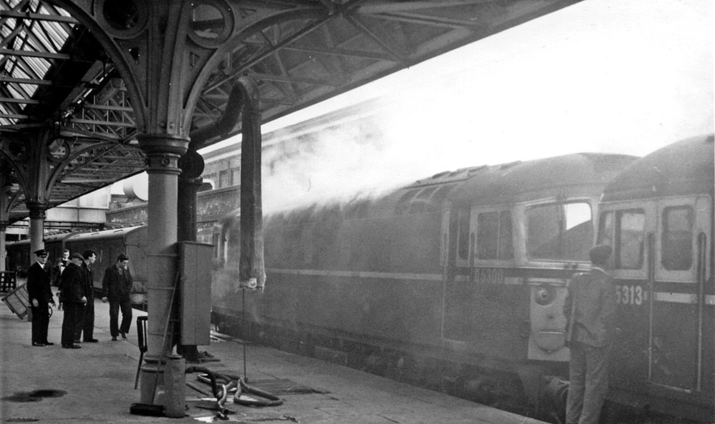 Tay Bridge Station, with Diesel locomotive on fire, near to Dundee, Great Britain. View eastward, towards Montrose and Aberdeen; ex-North British Edinburgh - Dundee - Aberdeen main line. The early main-line Diesels gave plenty of trouble: here Birmingham/Sulzer 1,1i60 hp Type 2s Nos. D5313 and D5300 coupled on an Aberdeen - Edinburgh express are having to be taken off because one is on fire!